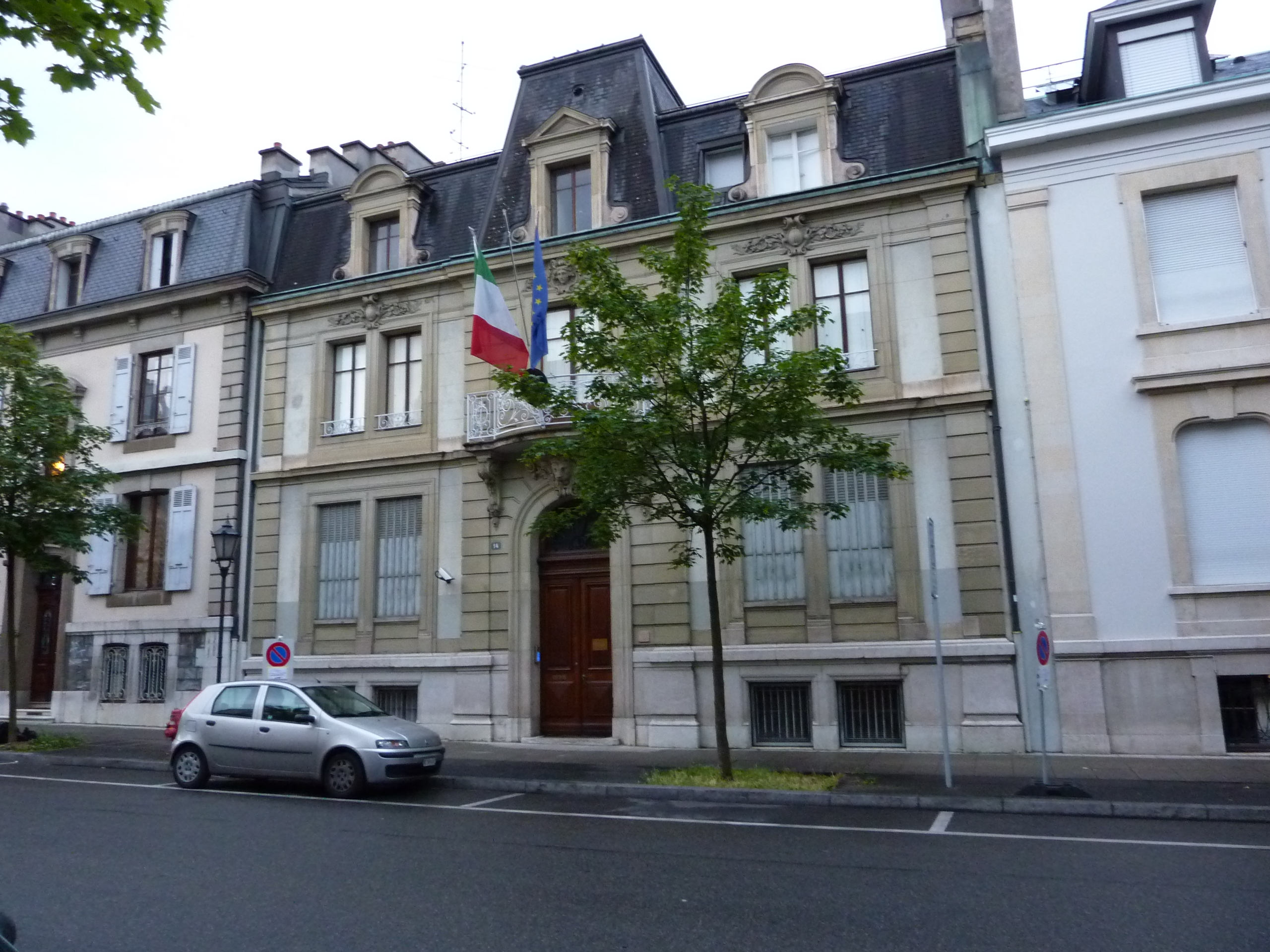 Italian consulate in Geneva